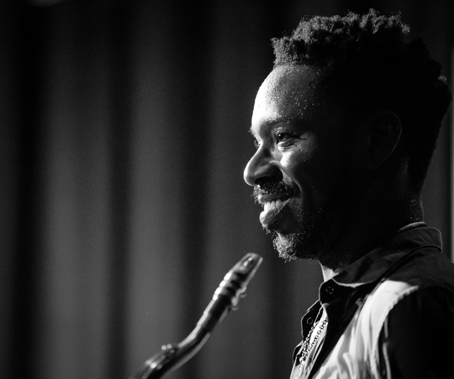 Shabaka Hutchings with Sons of Kemet at Victoria Teater. The concert was part of Oslo Jazzfestival and took place on 12. August 2018 in Oslo. Lineup: Tom Skinner (drums) Eddie Hick (drums) Theon Cross (tuba) Shabaka Hutchings (saxophone)